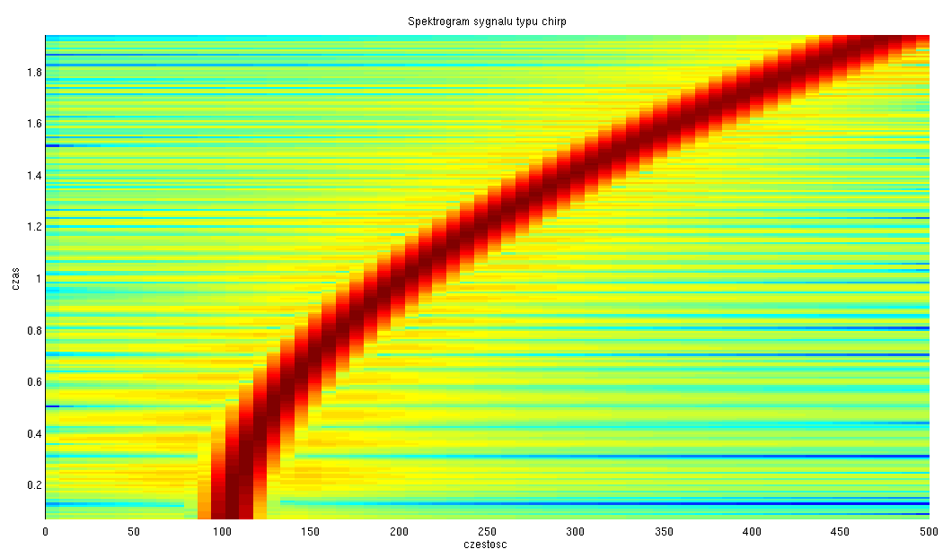 spectrogram of quadratic chirp create in matlab.